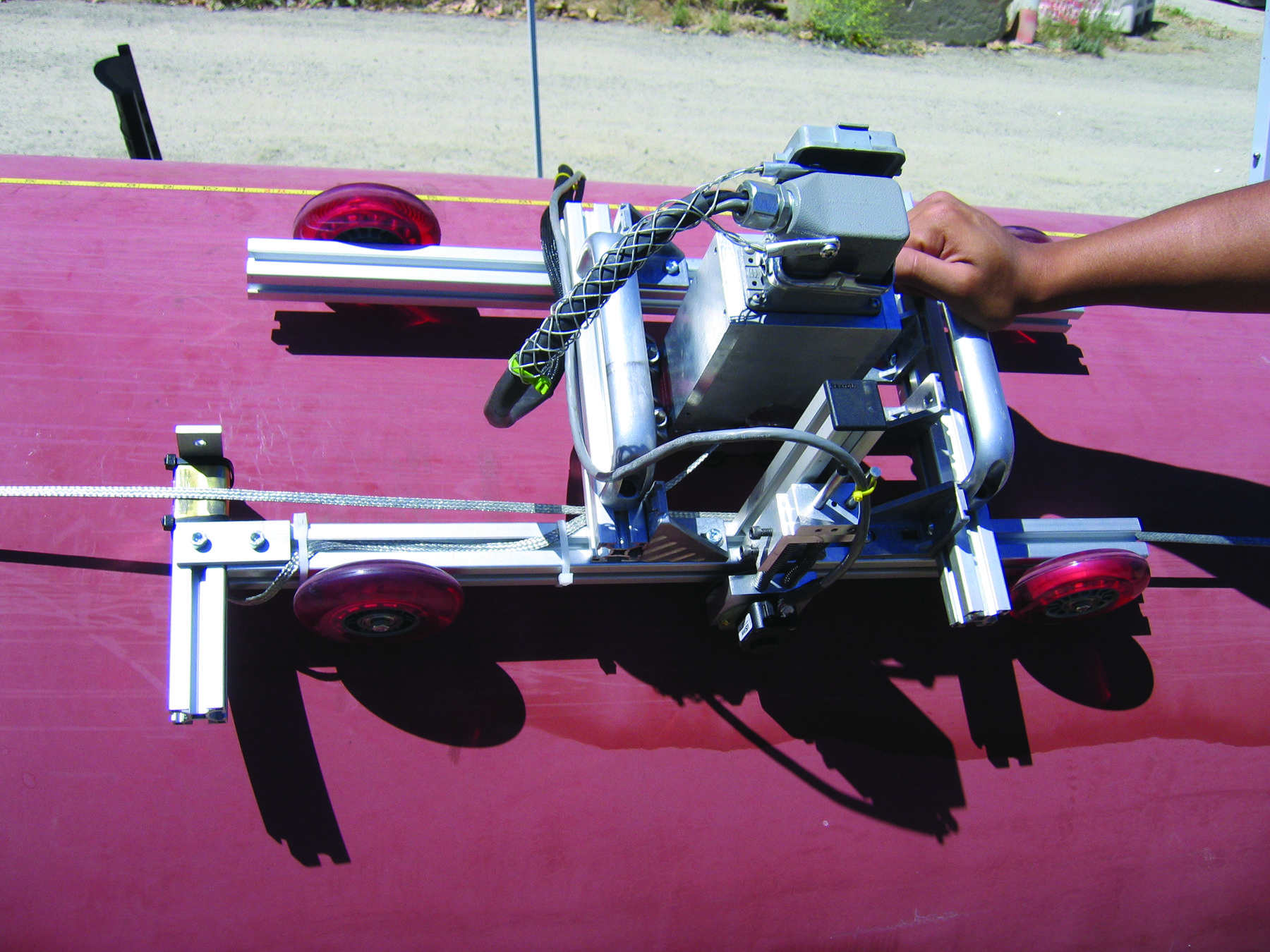 A prototype manual scanner of the ultrasound pipe crawler is tested on a metal pipe by researchers from Pacific Northwest National Laboratory. An acoustic inspection technology developed at pacific northwest national laboratory may help users in the oil, gas and other industries decide if a metal structure can withstand normal operation. Using a newly developed ultrasonic measurement technology, researchers can quickly locate and characterize suspected damage associated with strained metal. This measurement technology uses ultrasonic to determine the material properties of metal to determine the extent of damage caused by natural disasters, accidental run-ins with heavy equipment or normal wear and tear. This can be used to assessing the integrity of pipelines, bridges, railroad tracks and cars, steel girders, airplane landing gear or other metal structures.